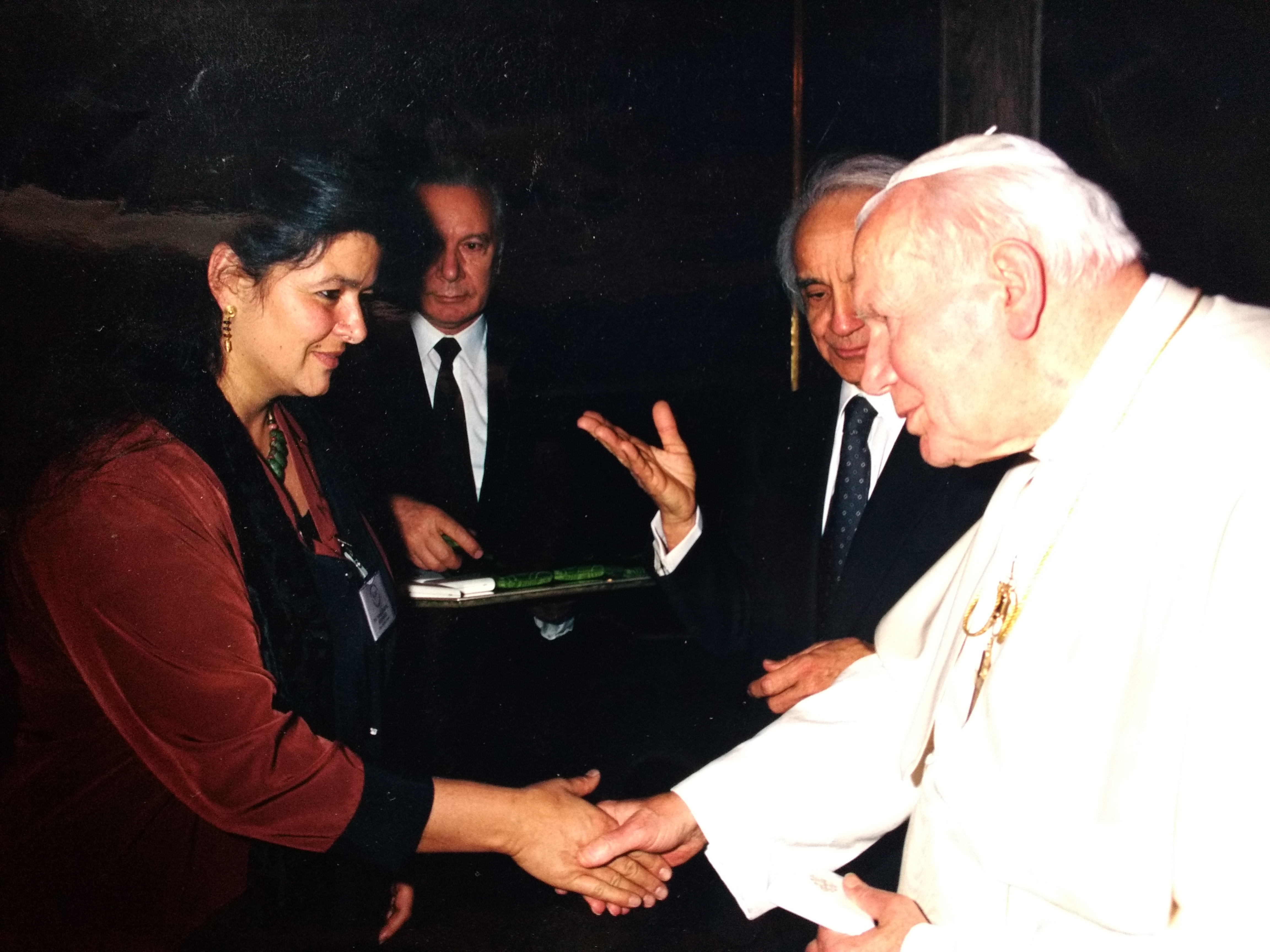 Doctor Charpak receives the San Valentino medal in 1999, in a ceremony lead by pope Jean Paul II